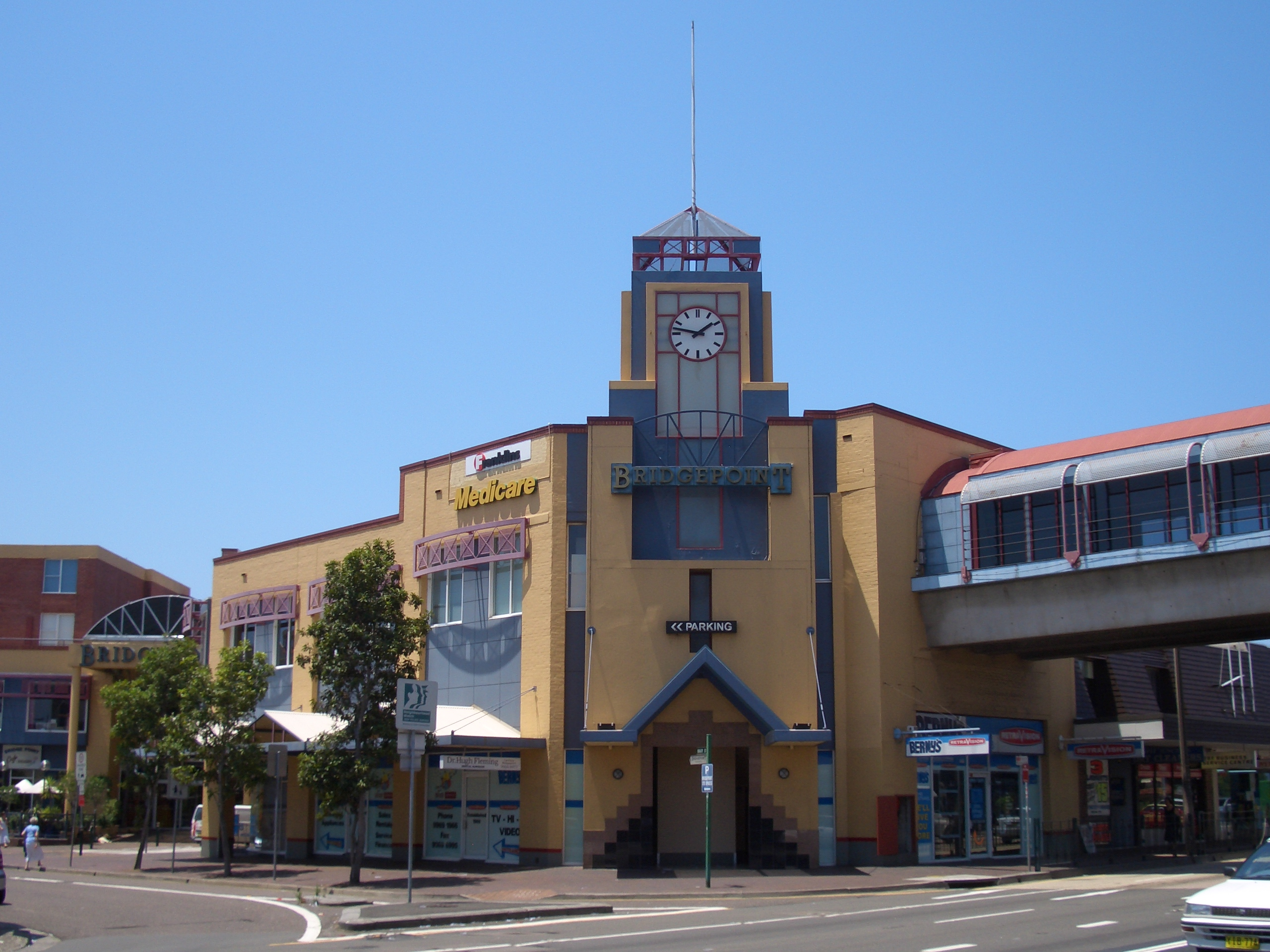 Bridgepoint, Military Road, Mosman, New South Wales